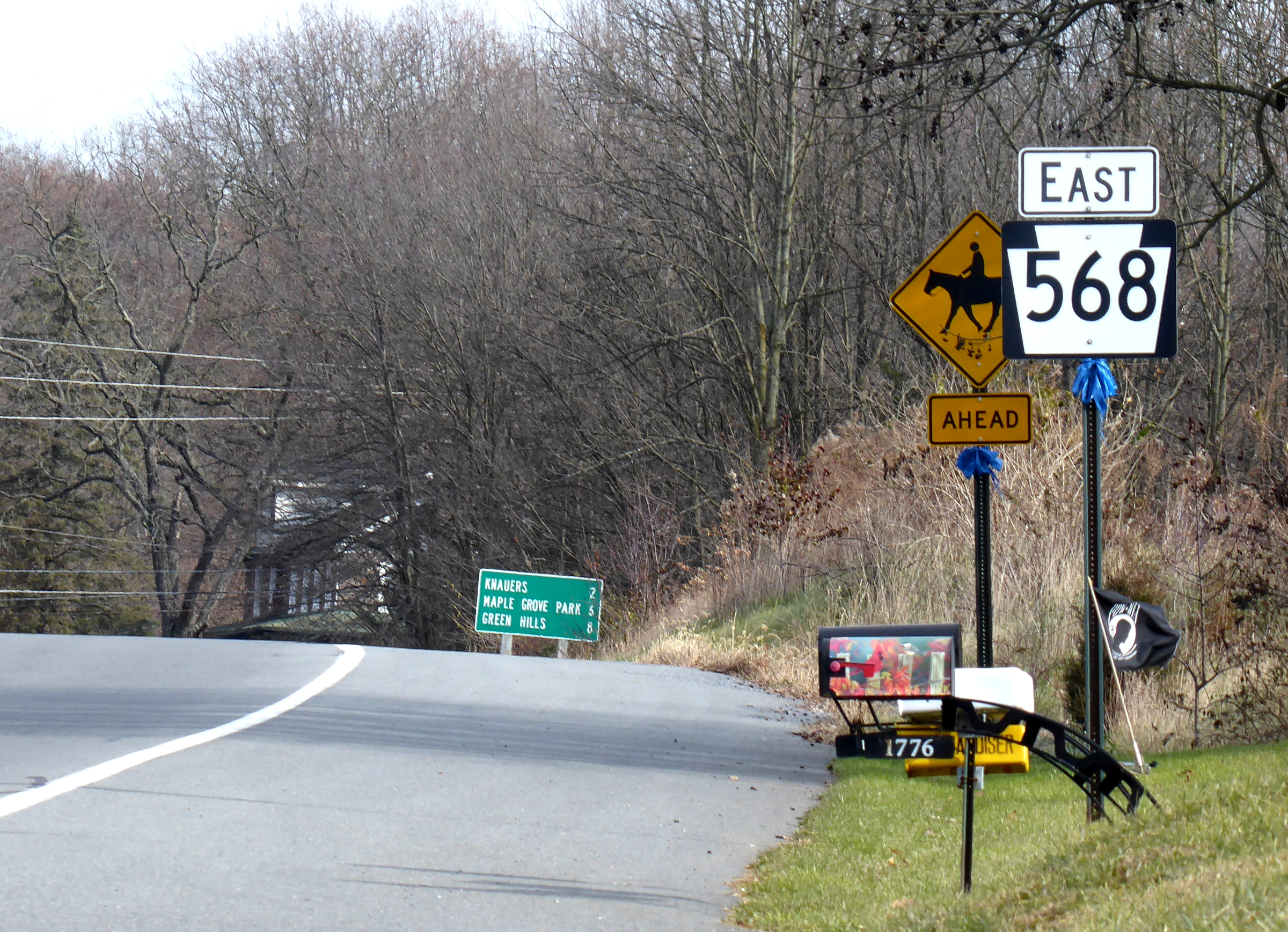 Pennsylvania Route 568 first eastbound shield in Brecknock Township, Pennsylvania.